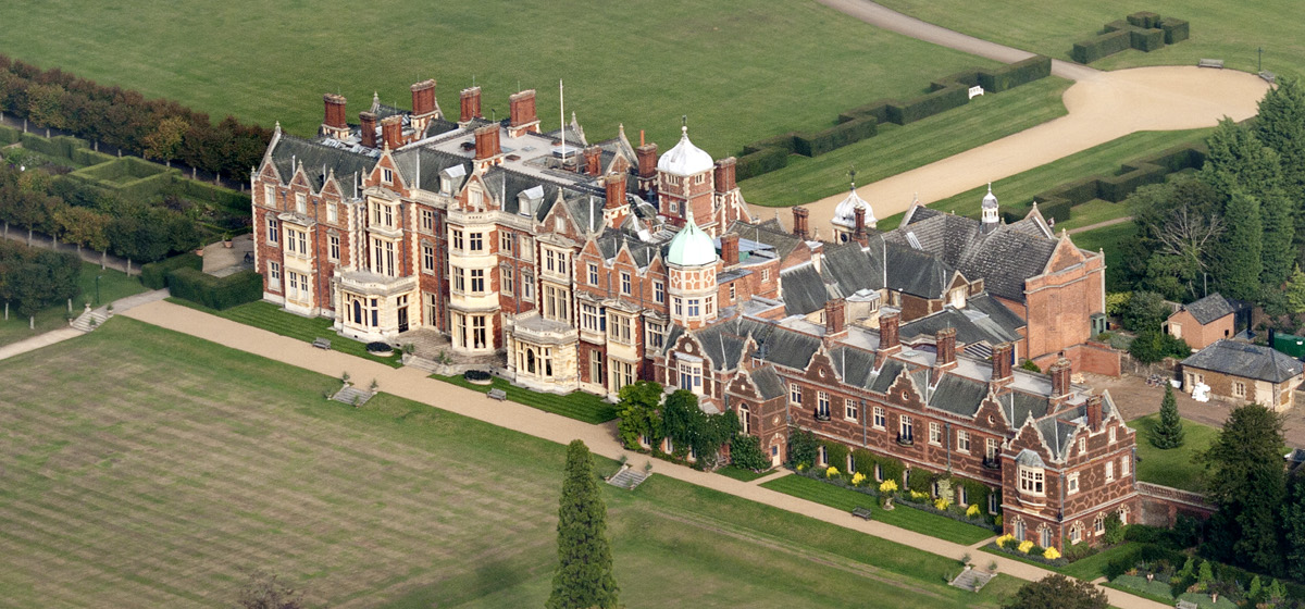 Aerial photo of Sandringham House, Norfolk